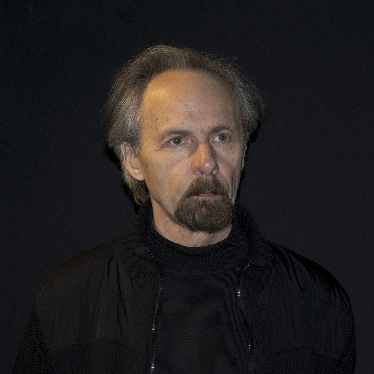 Film director Konstantin Lopushansky presenting his film The Role in Vienna, Austria, 03.12.2017